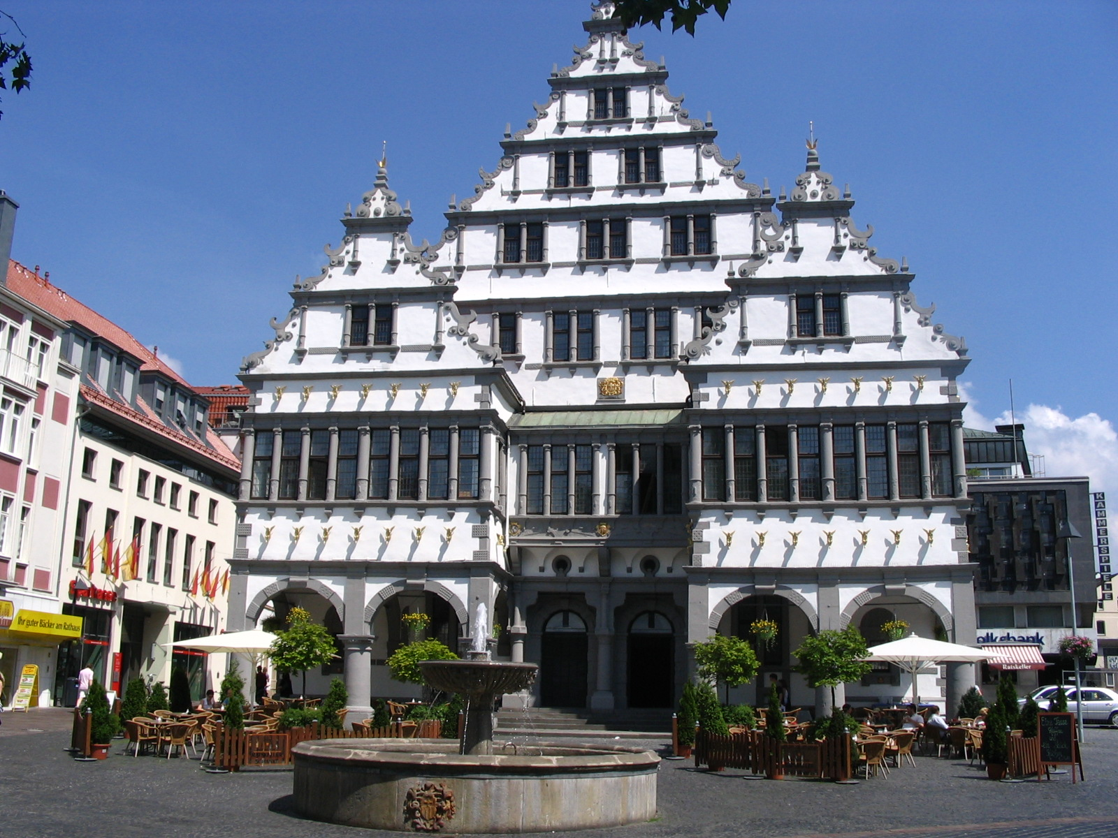 Rathaus/Townhouse of the city of Paderborn, Germany